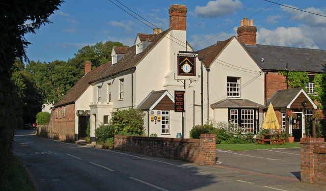 The Compasses Damerham Hampshire